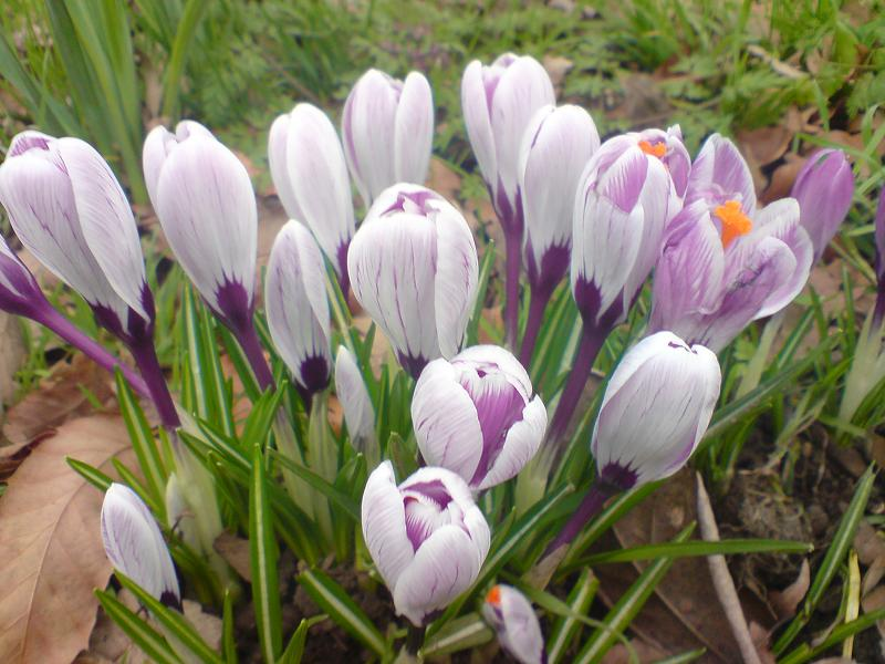 Crocus vernus in Kew Gardens, England.